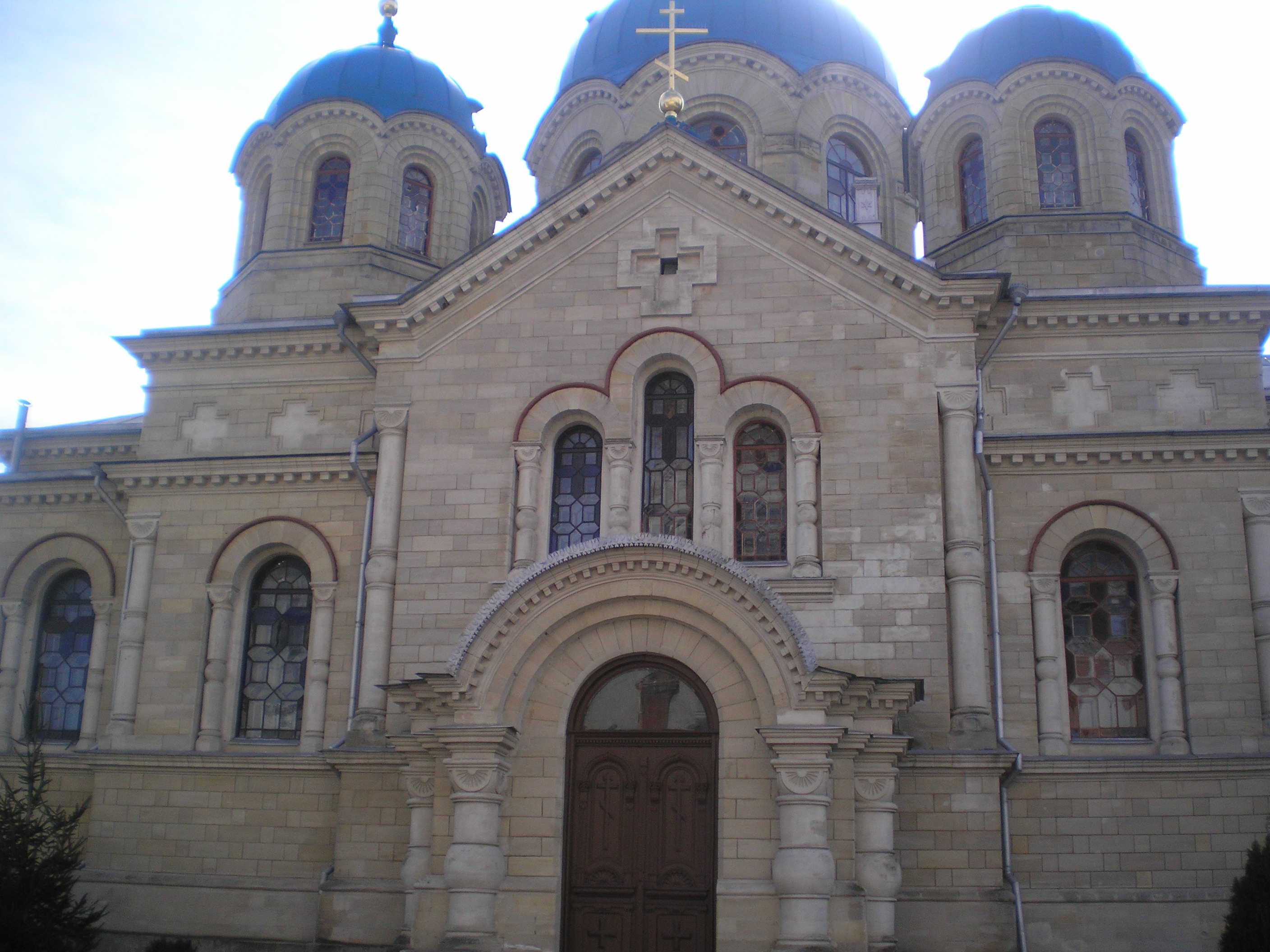 Kitskany monastery, Transnistria